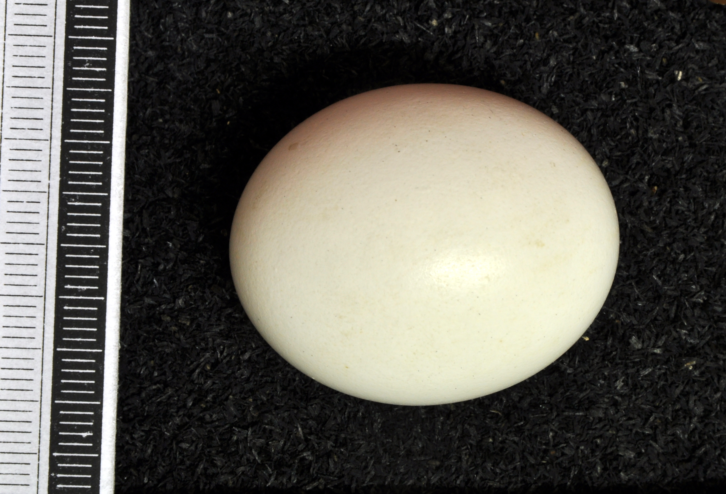 Short-eared owl Asio flammeus , egg, Coll. Museum Wiesbaden